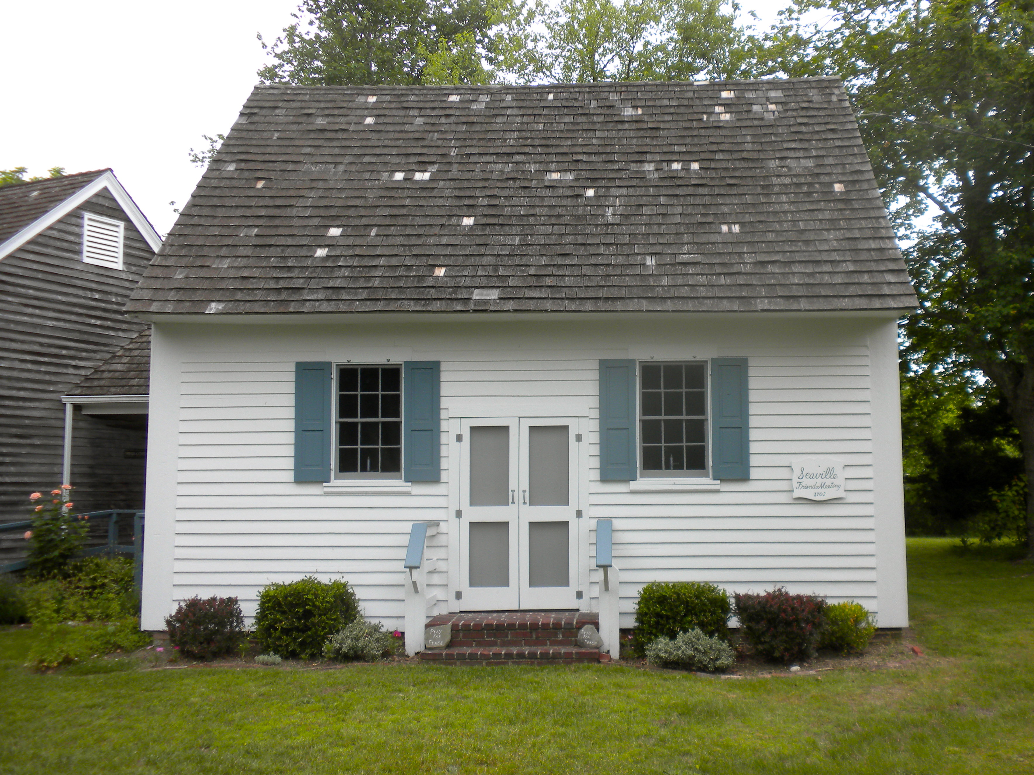 Seaville, NJ Friend's Meeting House, built 1704 (?). For some reason not on the NRHP, but has been documented by HABS